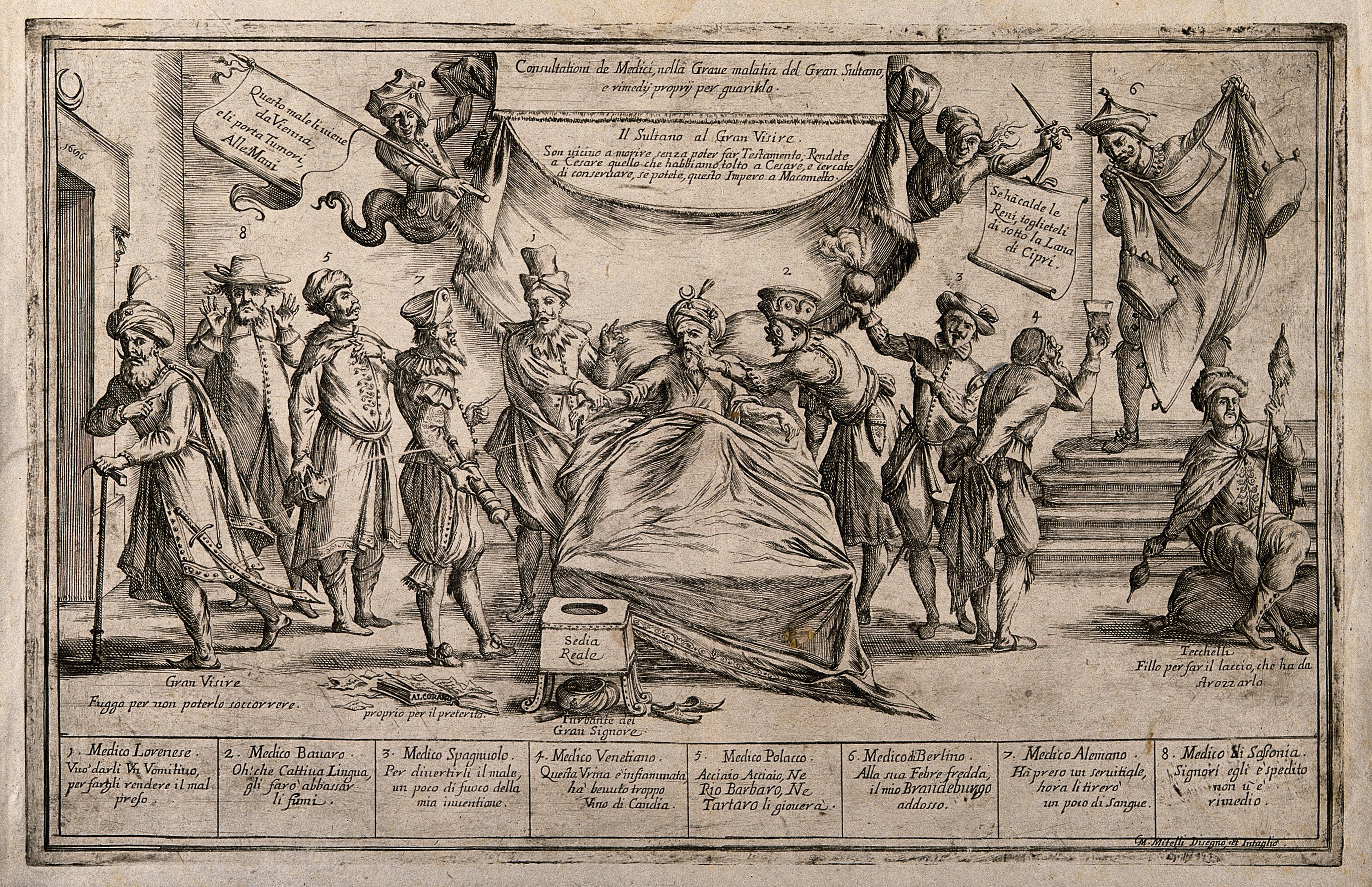 An international array of physicians, representing the Holy League against the Turks, gather around the sick sultan; the grand vizier creeps off, believing nothing can cure him; representing the Peace of Karlowitz of 26 January 1699, in which Venice, Russia and Poland all gained territories from the Ottoman Empire. Etching by G.M. Mitelli, c. 1700. Iconographic Collections Keywords: Giuseppe Maria Mitelli